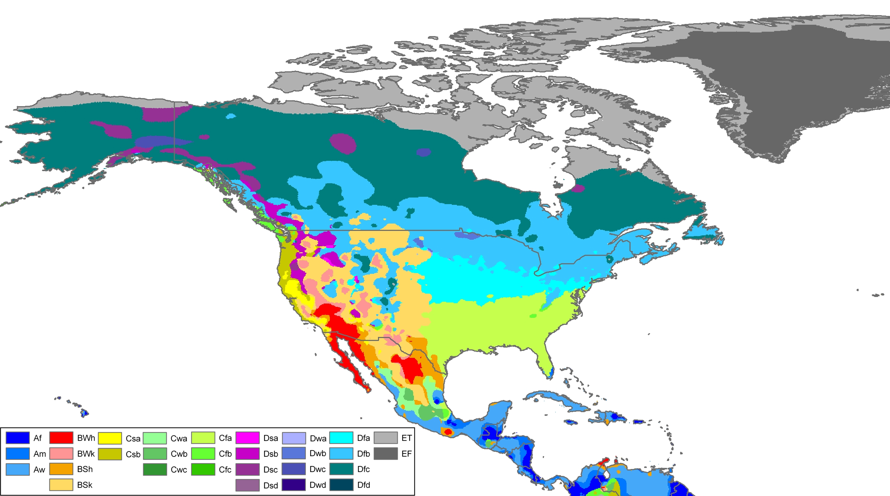 Climate map of North-America (from the "Updated world map of the Köppen-Geiger climate classification").